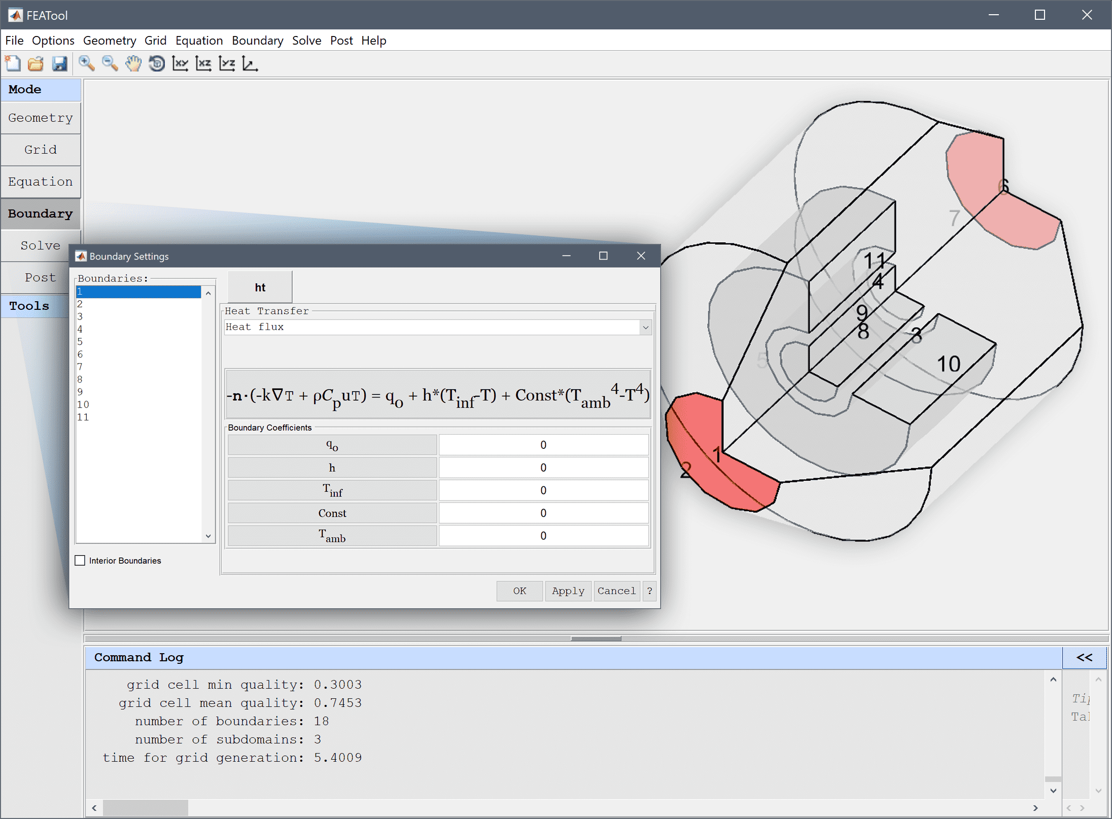 FEATool Multiphysics MATLAB GUI - Boundary Settings Mode